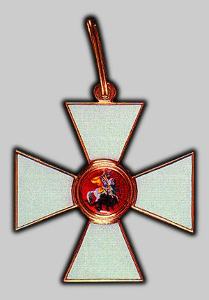 Sign of Order of St George First Rank